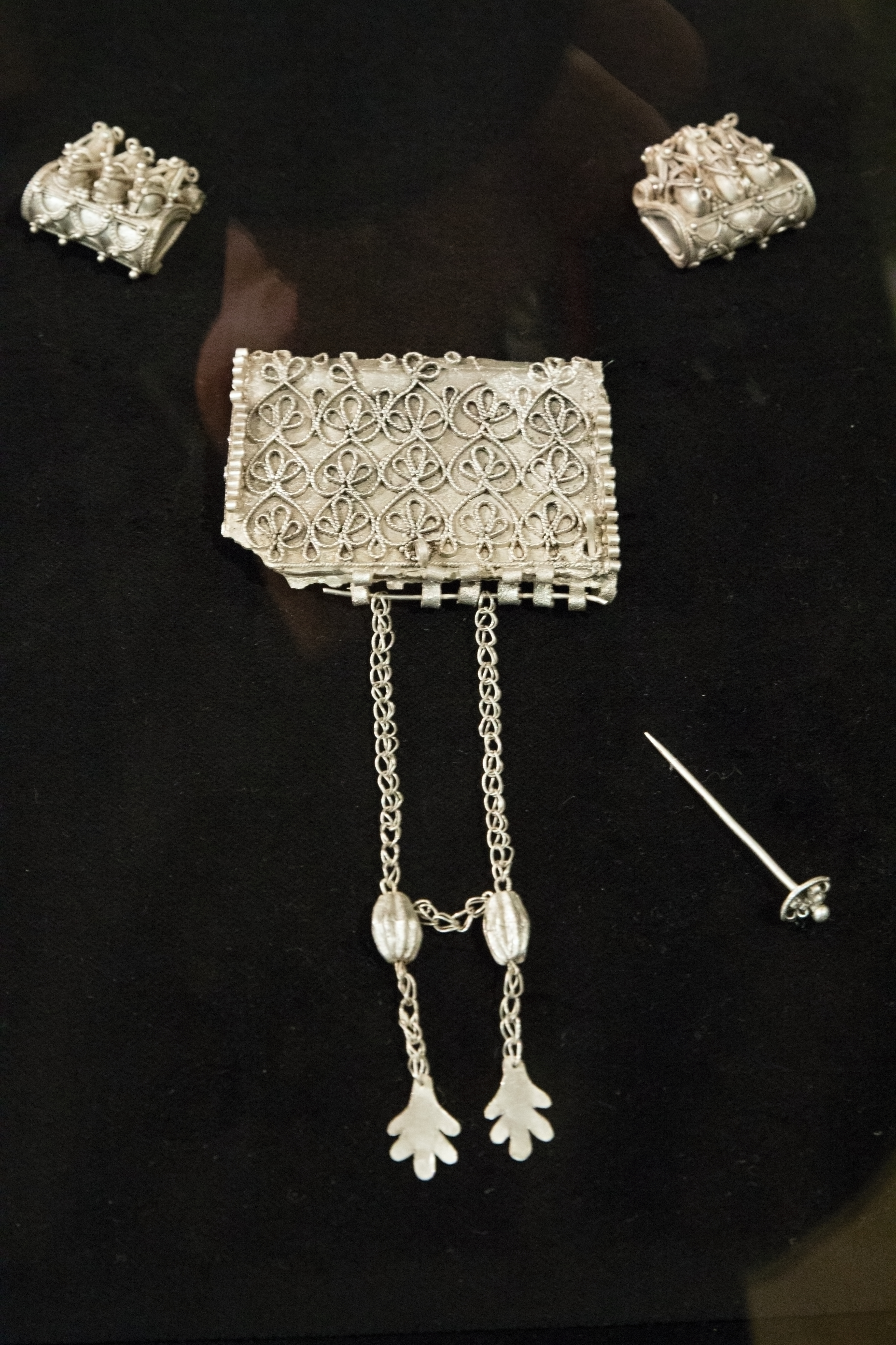 Three kaptorgs (boxes for small magical objects) from a necklace. Jewellery from the tomb of the so-called Kouřim Princess. Kouřim (Kolín Disttrict) - Stará Kouřim, burial site U Libuše, around 900 AD.